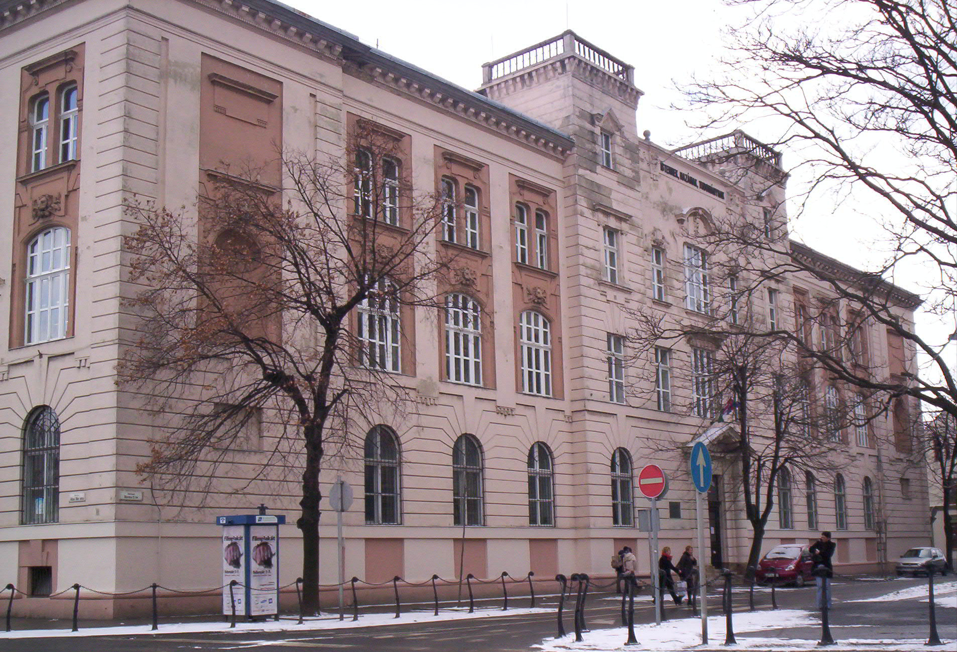 Grammar School of Pápa Reformed College, the main builing on Március 15 square A Pápai Református Kollégium Gimnáziuma, a főépület a Március 15. tér, 9 (Jókai sarok) This is a photo of a monument in Hungary, Identifier: 10202